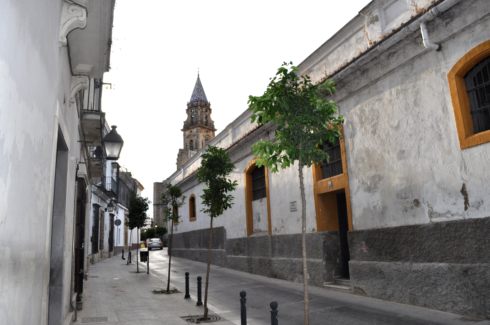 Saint Michael Tower from Barja St.